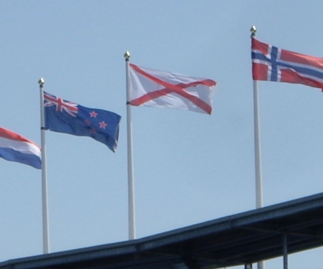 Flags of nations participating in the 2011 Royal Edinburgh Military Tattoo. Northern Ireland is represented by Saint Patrick's Cross. Countries in alphabetical order from left: (Nepal,) Netherlands, New Zealand, Northern Ireland, Norway, (Oman, Poland).